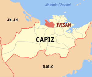 Map of Capiz showing the location of Ivisan